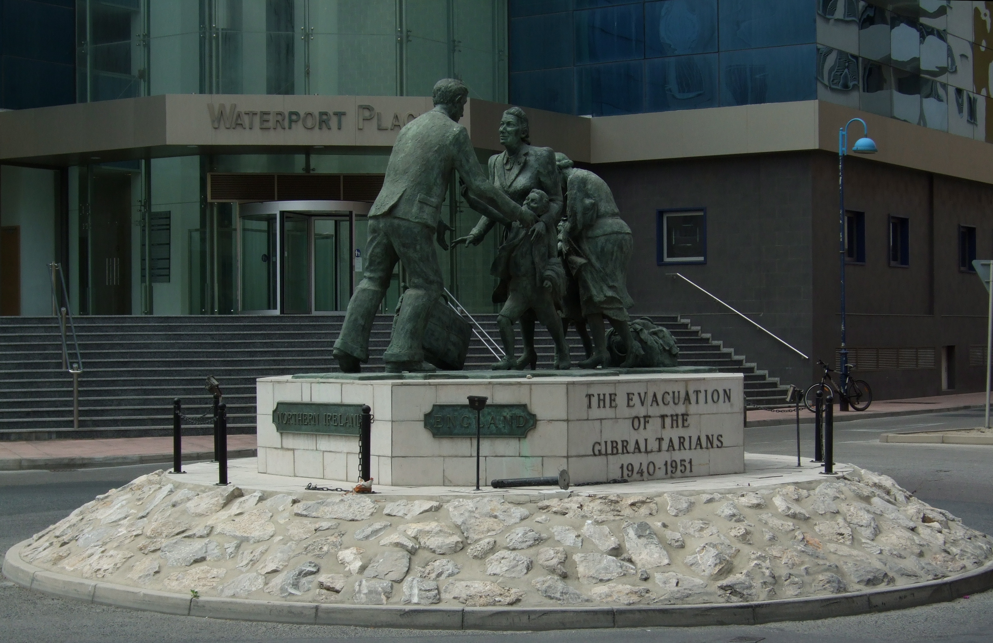 'The Evacuation of the Gibraltarians' monument, Waterport, Gibraltar Gibraltarians were kicked out and sent to a mixture of places when World War II started, including London and Northern Ireland. After the war it took them quite some time to convince the UK state to let them return to Gibraltar. Dealing with colonial peoples is considered a messy business.